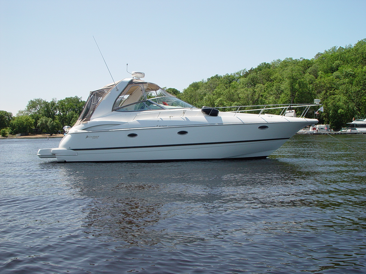 Our 2000 Cruisers Yachts 3672 Express, anchored near Prescott, WI on the St. Croix River.